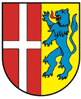 Coat of arms of Wollerau, Canton Schwyz, Switzerland